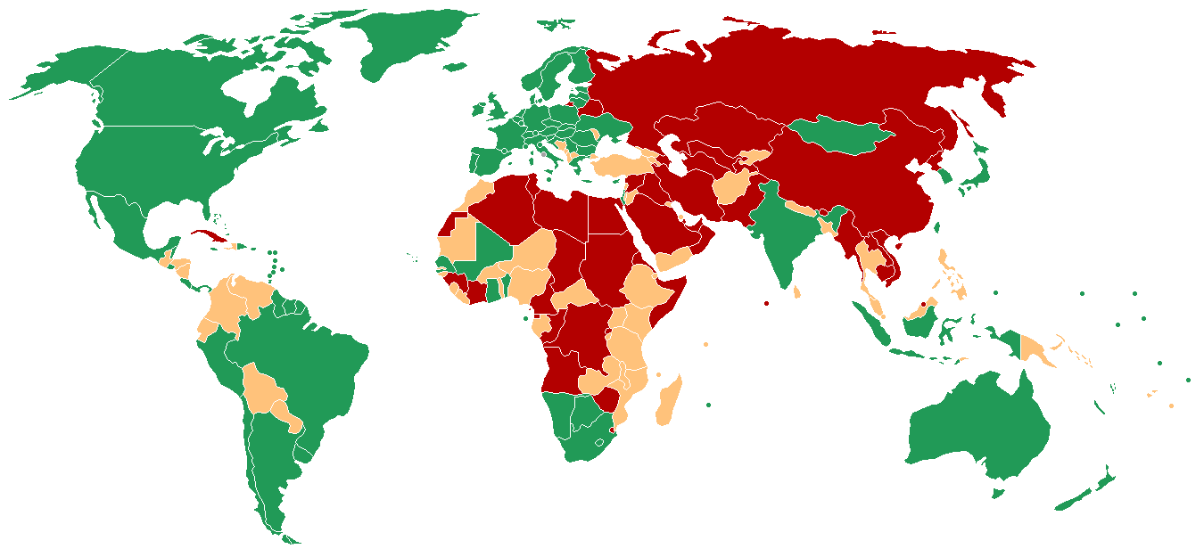 Freedom House world map 2008, based on and